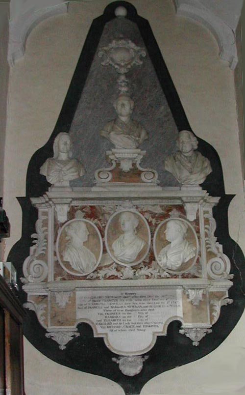 Funerary memorial plaque to Sir Richard Newman (1676 – 1721), his wife Frances (d.1730), his son Sir Samwell Newman (d.1747) and his daughters, Frances (d.1775), Barbara (d.1763) and Elizabeth (d.1774). The carved memorial was created by Sir Henry Cheere c.1747 and is mounted in the Newman Chapel, in the church at Fifehead Magdalen, Dorset, UK.